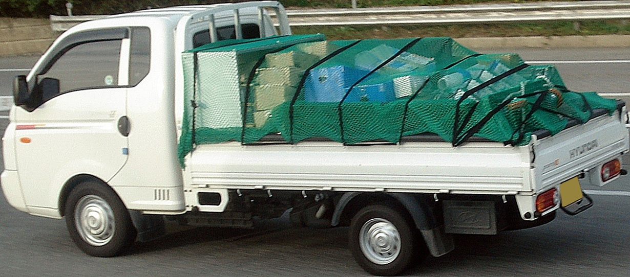 Hyundai Porter2